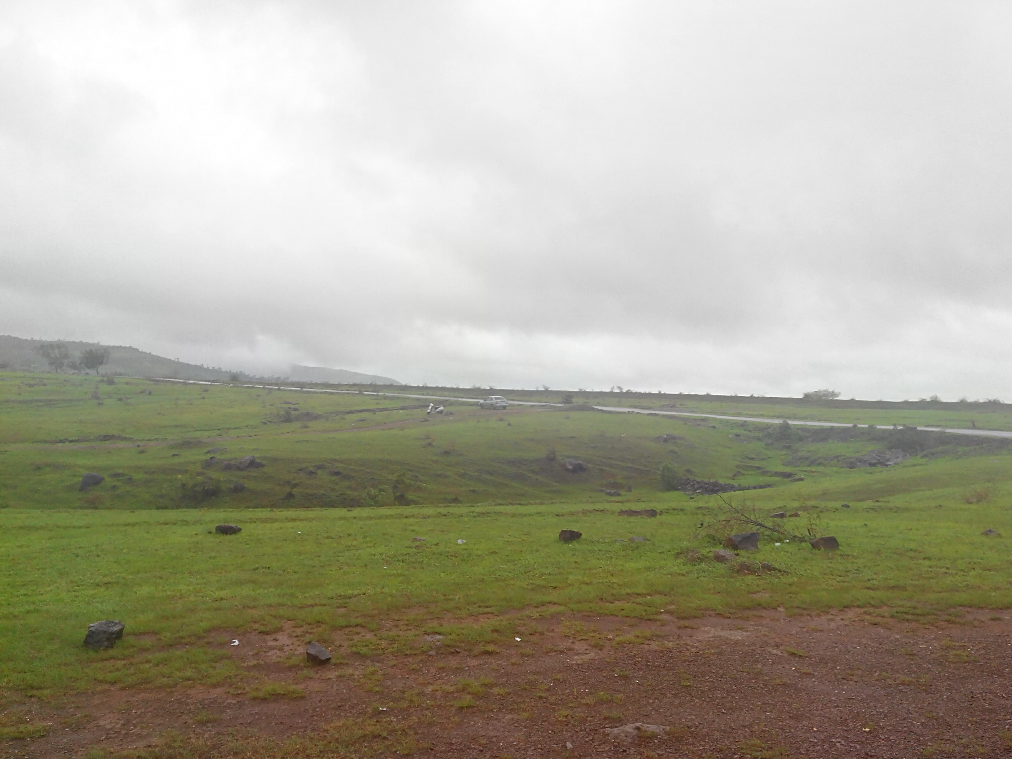 Near Kas , July 2014